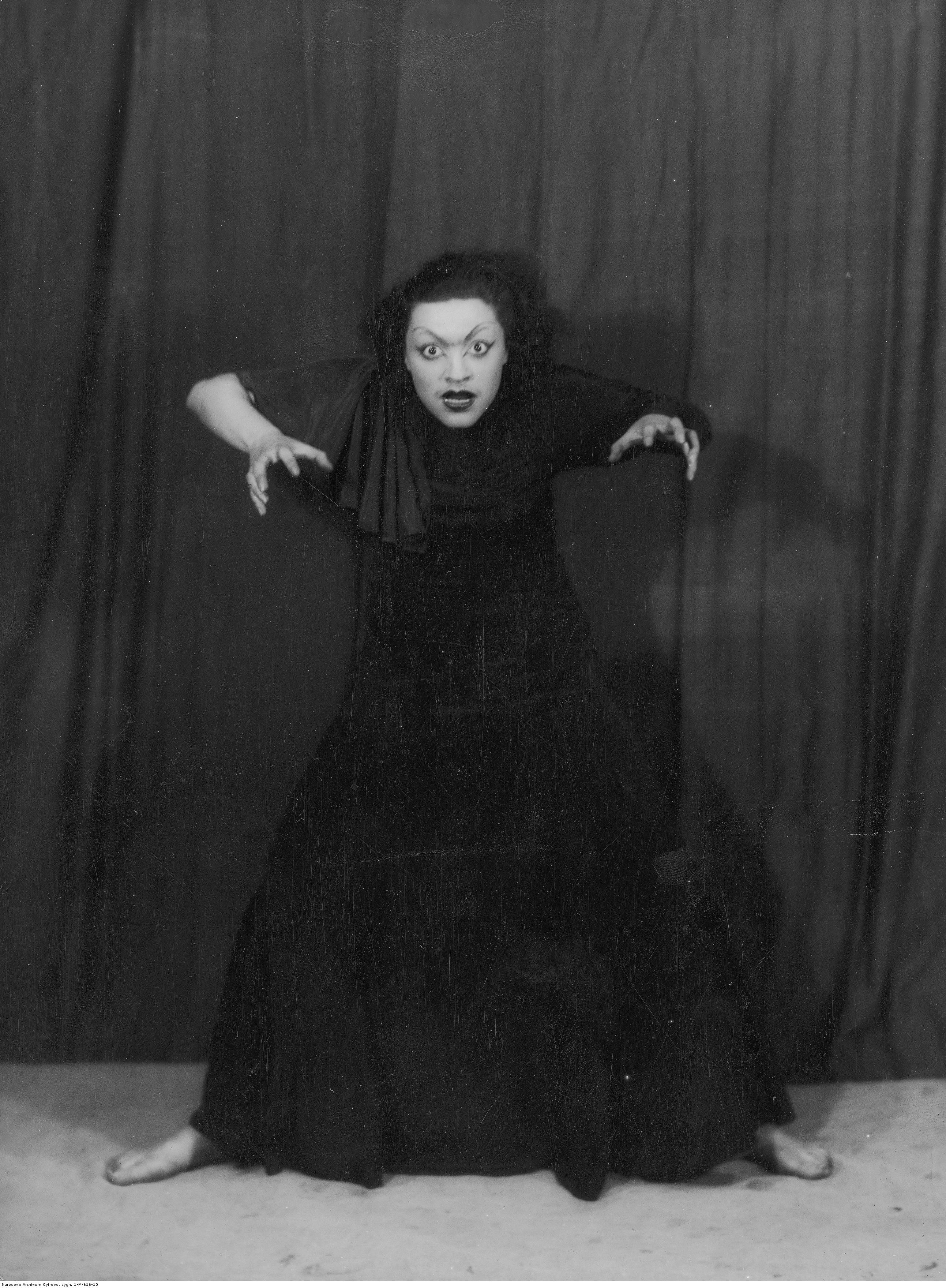 Pola Nirenska, a performer of modern dance in the Expressionist style, performs her solo work Krzyk (Cry) in June 1933 at the International Competition for Solo Dance in Warsaw, Poland.